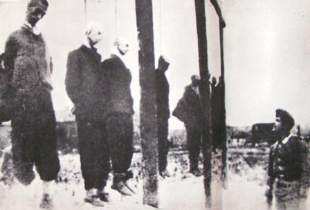 Polish hostages hanged by Nazi Germans during a public execution on 16 October 1942. Warsaw - Toruńska street.